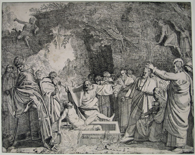 The Raising of Lazarus. Etching. New York, The New York Public Library.